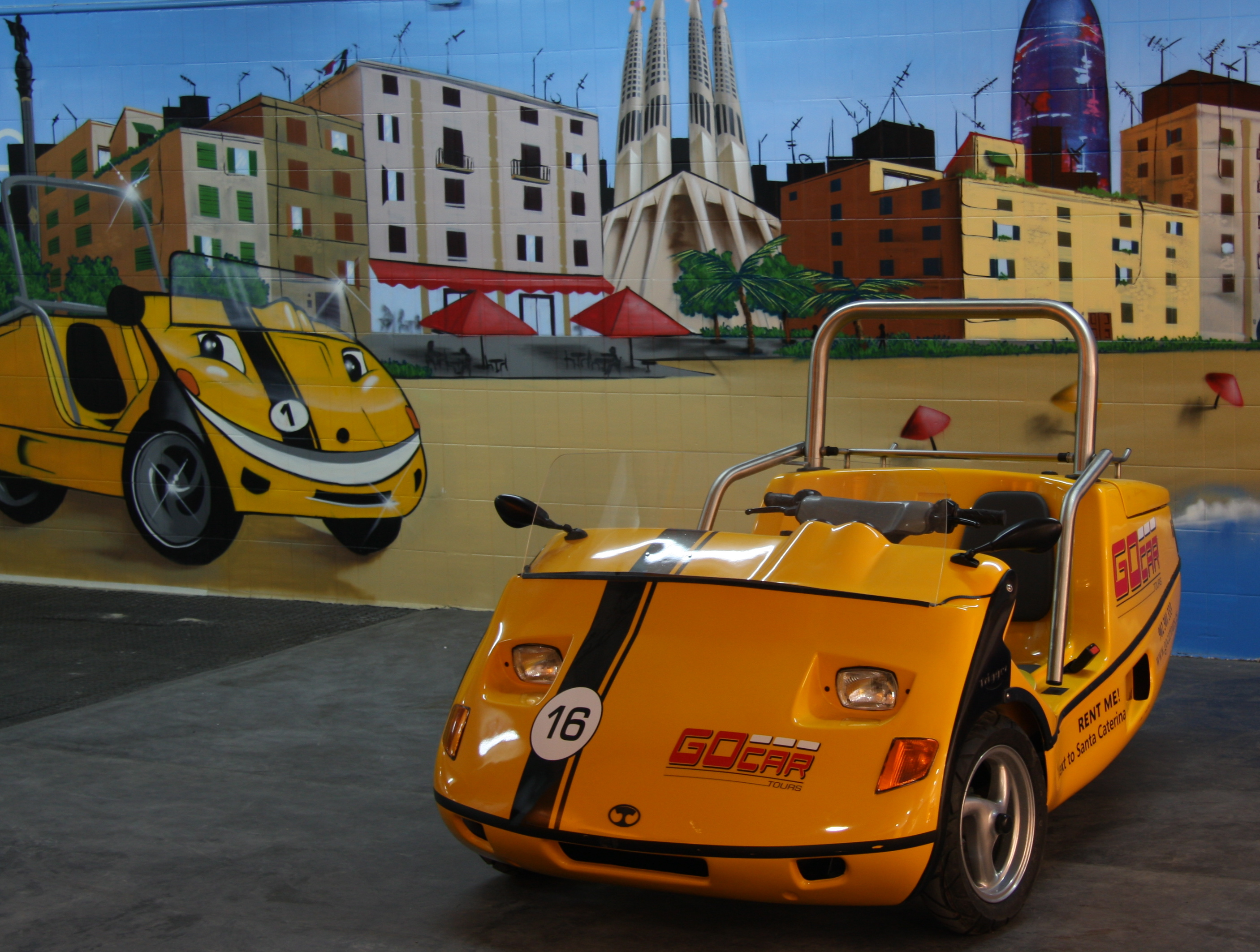 GoCar GPS Sat Nav guided Car Sightseeing Tours